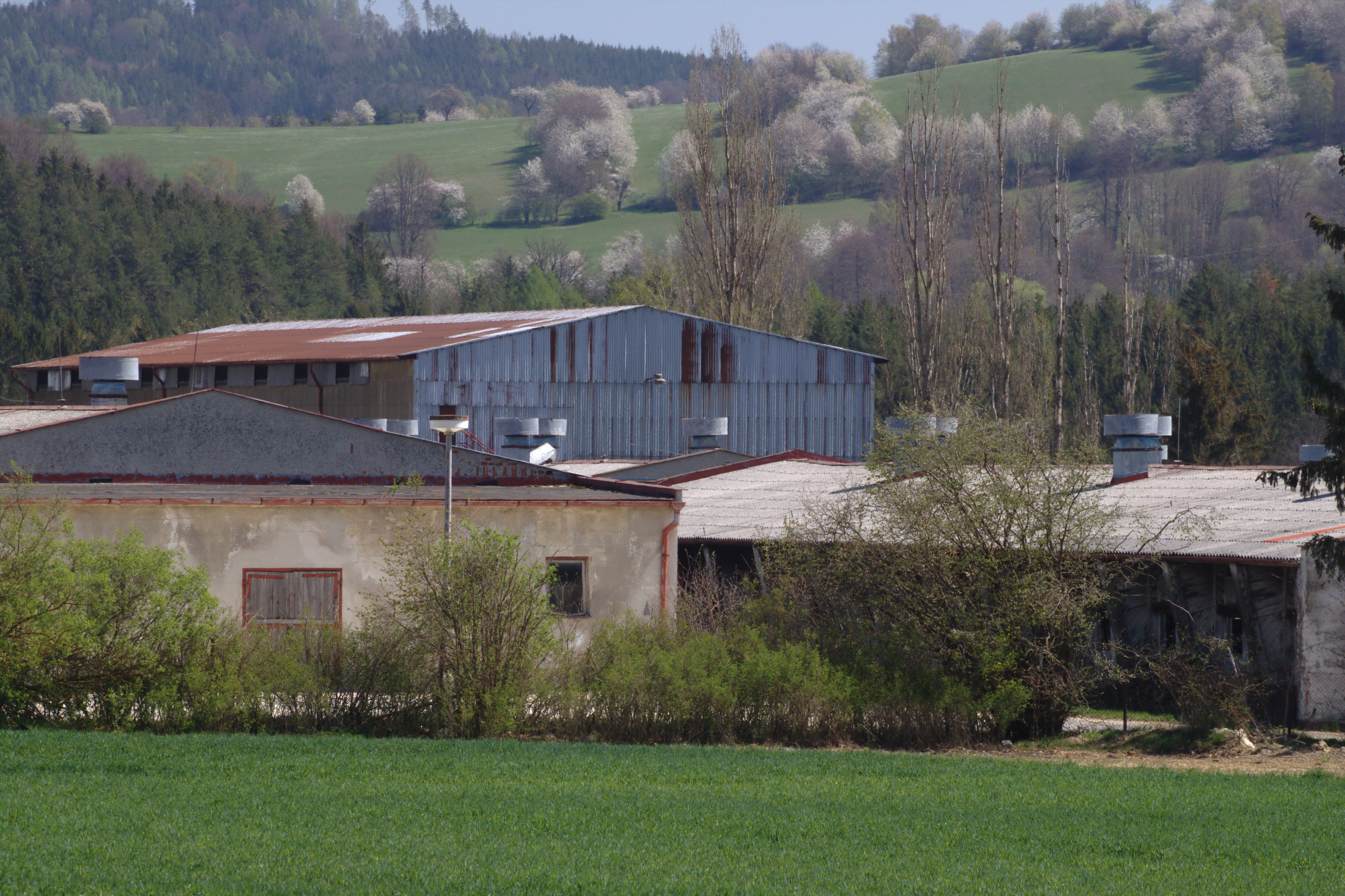 This photograph was created as a part of Wikiexpedition Mladá Vožice, a project supported by Wikimedia Foundation grant.